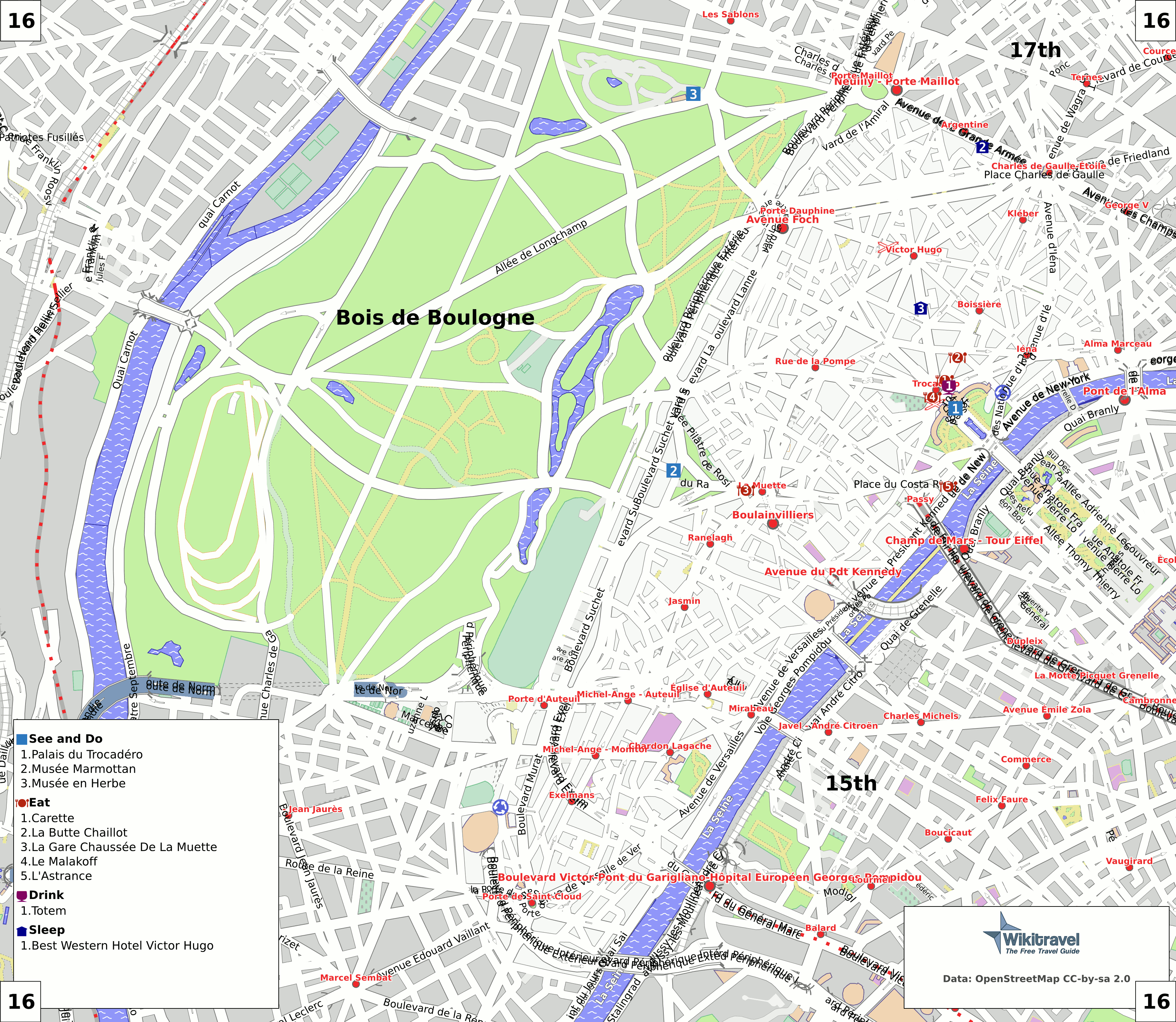 Map of the 16st arrondissement of Paris.